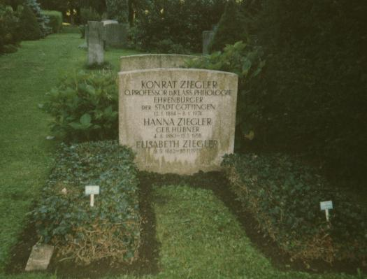 Grave of german classic scholar Konrat Ziegler